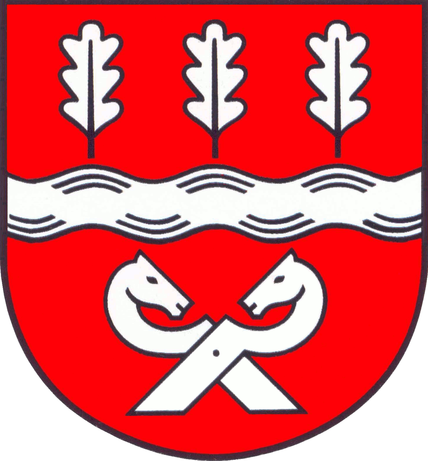 Coat of arms of the municipality Wohltorf in Schleswig-Holstein, Germany.